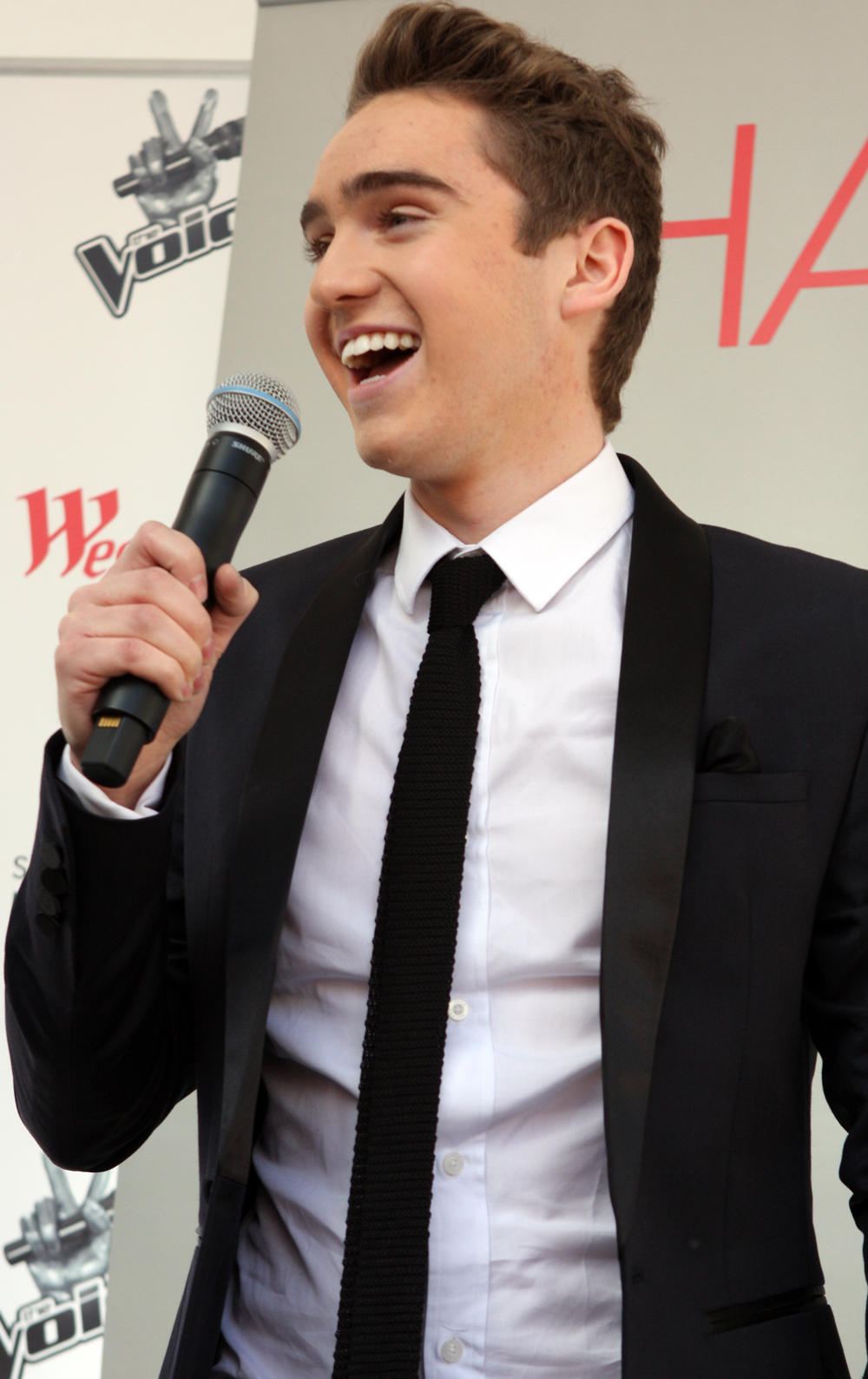 Harrison Craig from The Voice performs at Westfield Chatswood, The Concourse, Sydney, Australia - 4th July 2013